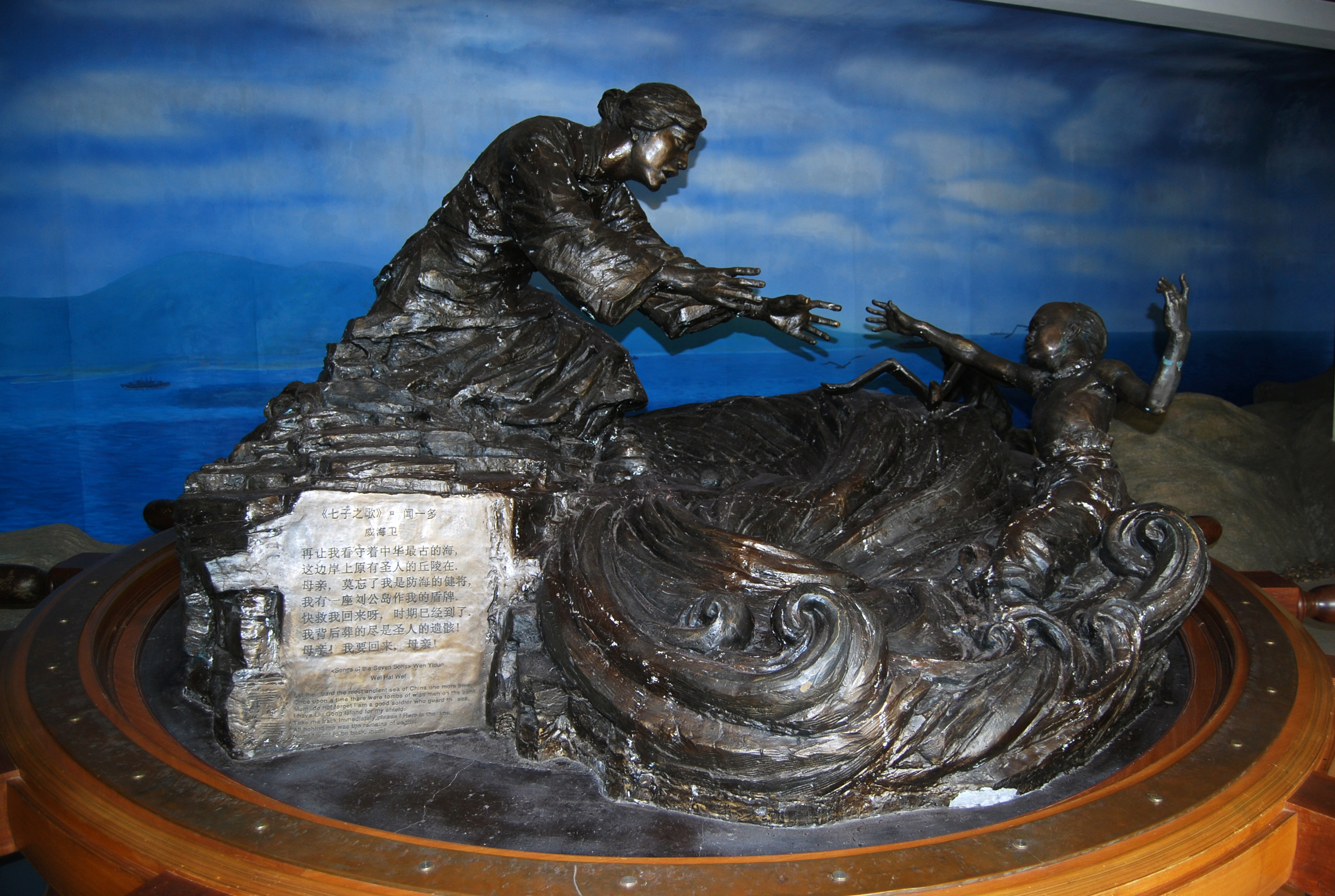 The statue for Wen Yiduo's poem Song of Seven Sons in Weihai, Shandong.